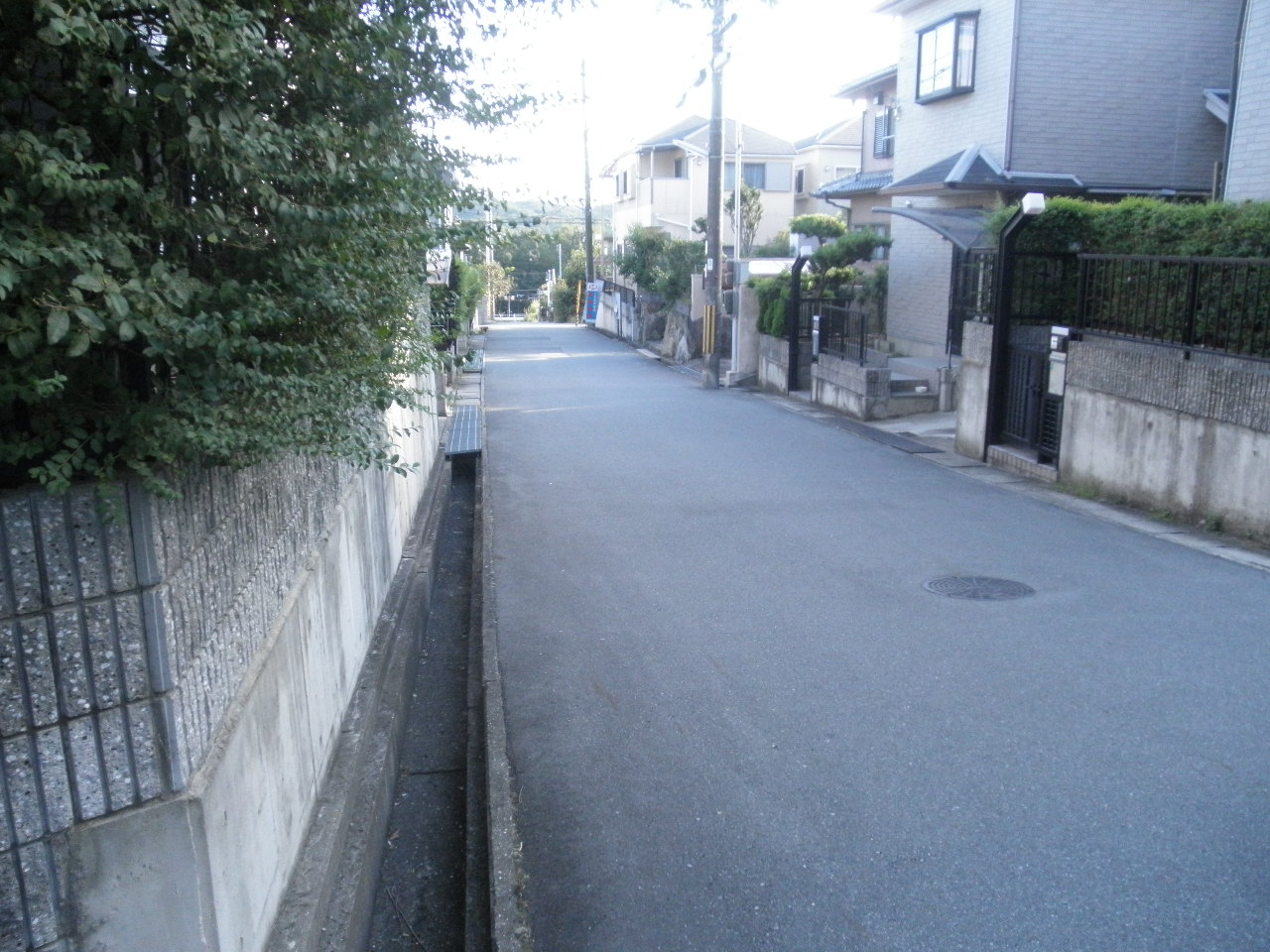 Mihogaoka4 Nishi-ku Kobecity Hyogopref